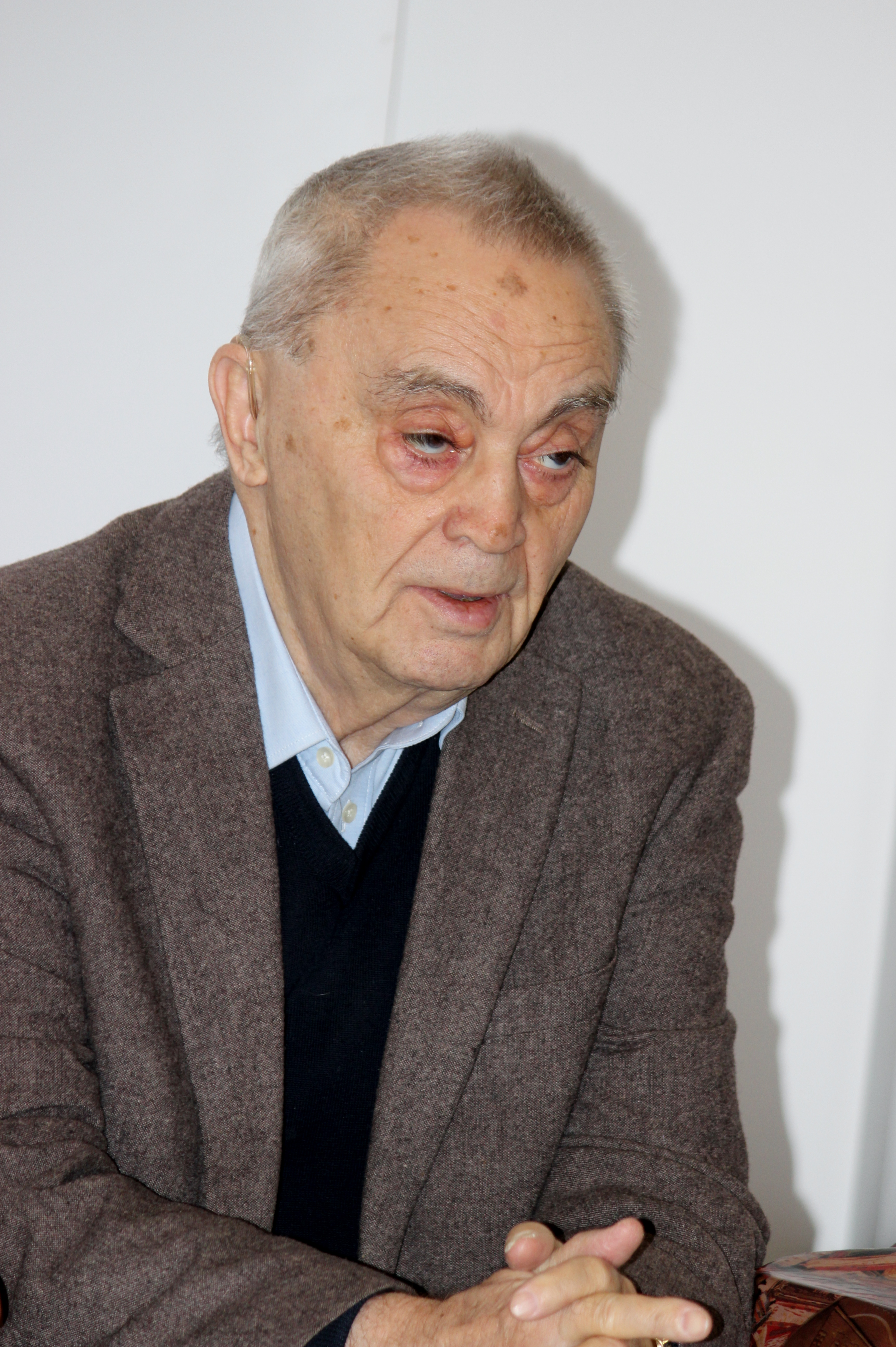 Russian journalist Karen Karagezyan (the Gorbachev Foundation) during the presentation of the Russian translation of William Taubman's book Gorbachev: His Life and Times at the 20 Moscow International Fair Non/fiction 2018